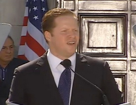 The Puerto Rican Secretary of State David Bernier forthwith Inauguration of Alejandro García Padilla as the 10th Governor of the Commonwealth of Puerto Rico on the Capitol steps. San Juan, Puerto Rico, Wednesday Jan. 2, 2013.